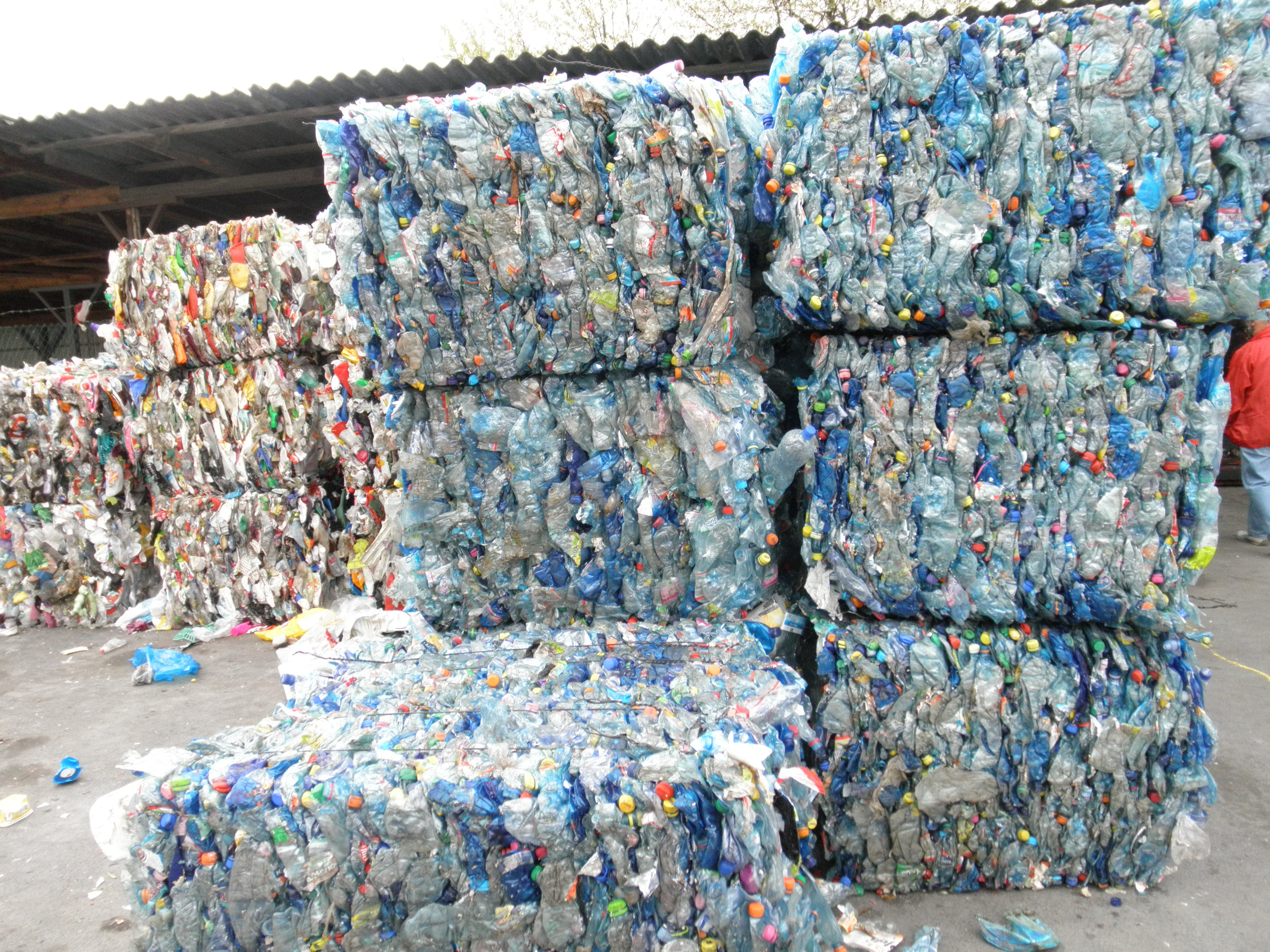 Bales of crushed blue PET bottles and bales of various other plastics. In Olomouc, the Czech Republic.